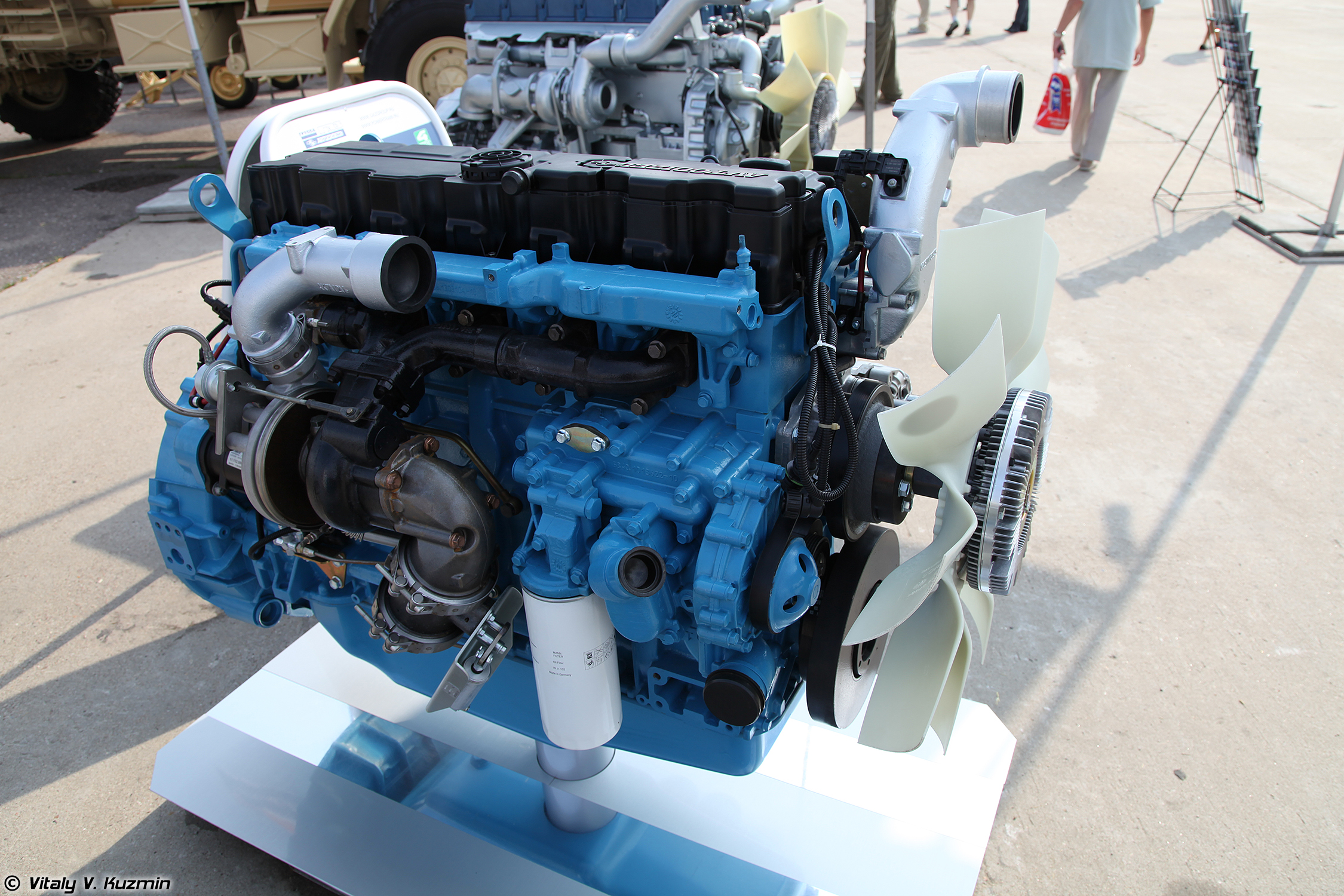 YaMZ-53642 engine.